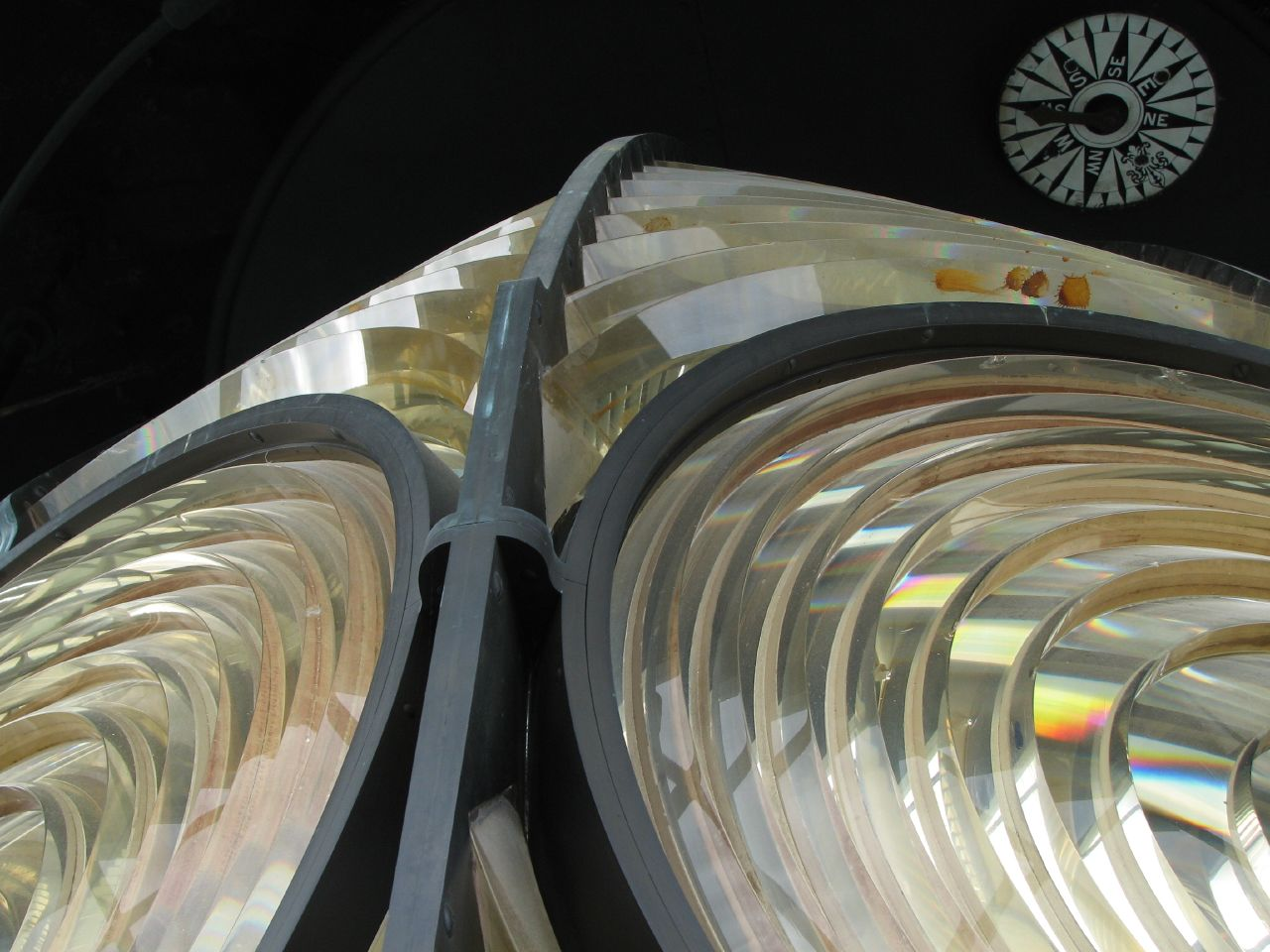 Fresnel lenses at South Stack lighthouse in Wales